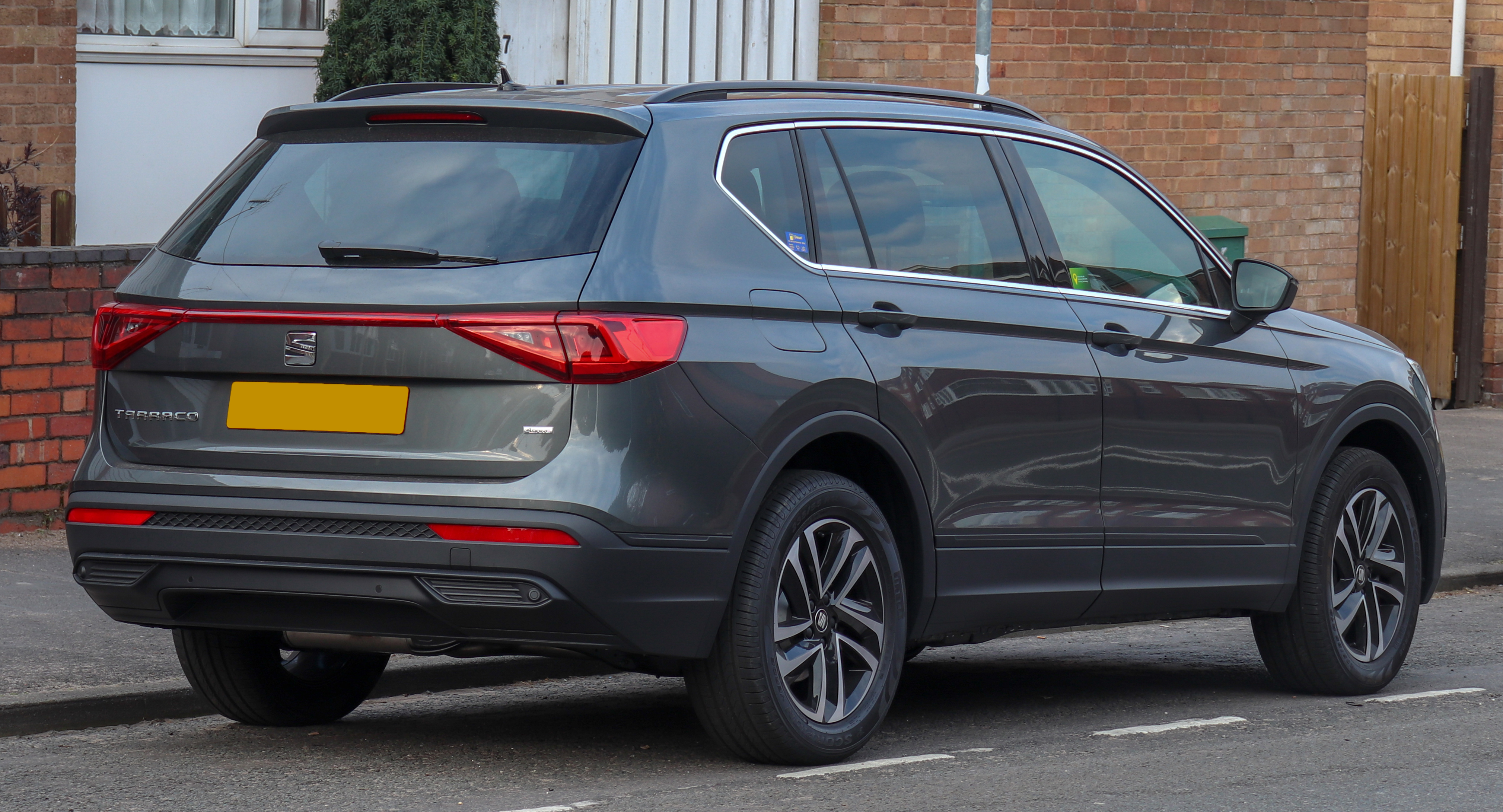 2019 SEAT Tarraco SE Tech TDi 4Drive SA 2.0 Rear Taken in Warwick